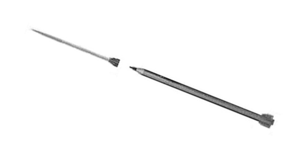 Judi Dart rocket shape.